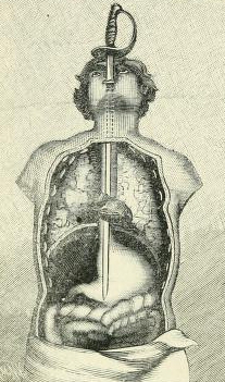 The position of a sword in a person's body when swallowed.